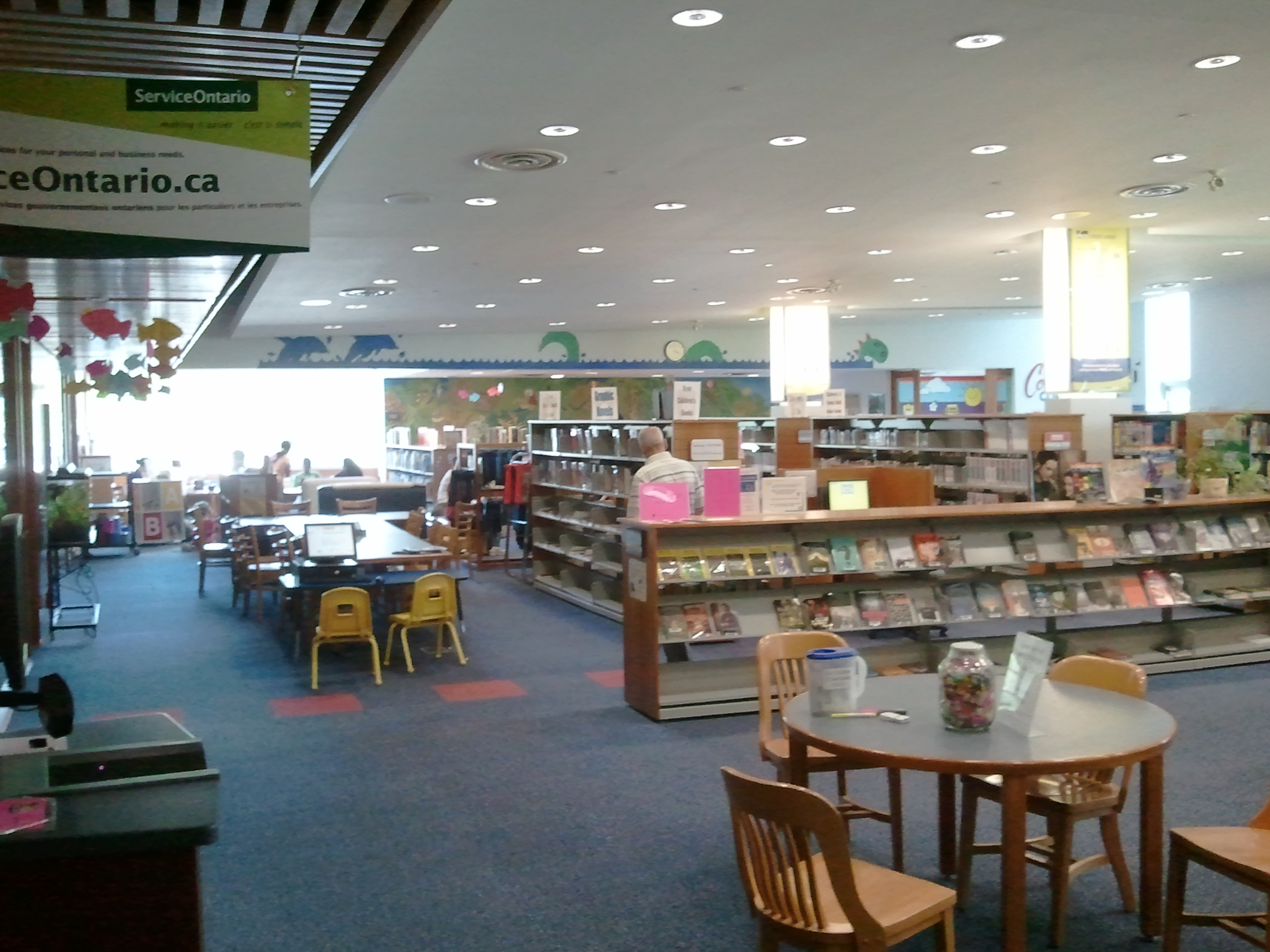 Interior hall of Whitchurch-Stouffville Public Library, Whitchurch-Stouffville, Ontario, taken June 2011